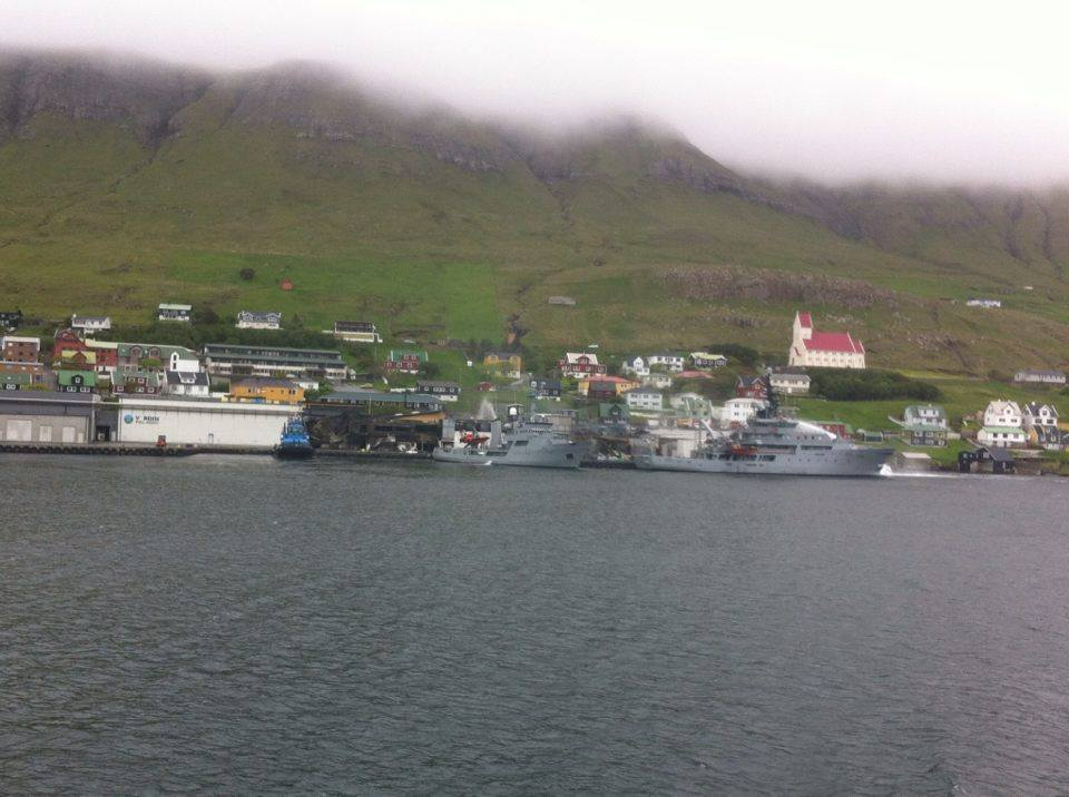 Varðin Pelagic in Tvøroyri on 10 June 2017. The day before, there was a large fire in the factory and people from Tvøroyri, Trongisvágur and Líðin had to be evacuated because of the smoke and danger of amonium acid leaking out. The fire started at 10 in the morning. At 10 in the evening most people could return to their homes.